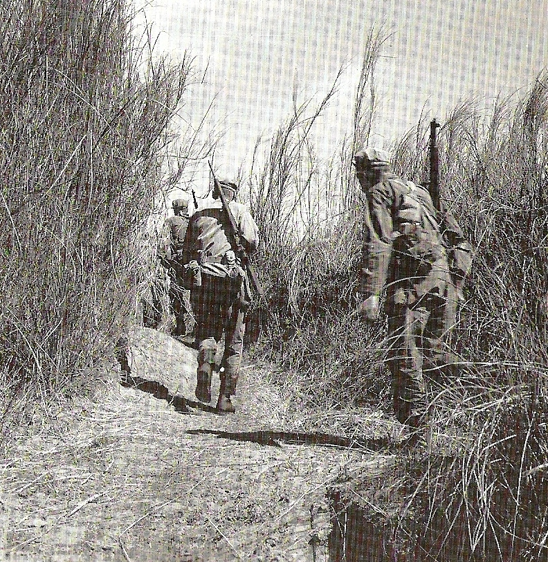 U.S. Rangers behind Japanese lines on their way to rescue prisoners from the Cabanatuan Prison Camp in the Philippines.